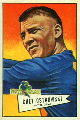 American football player Chet Ostrowski on a 1952 Bowman Large card.